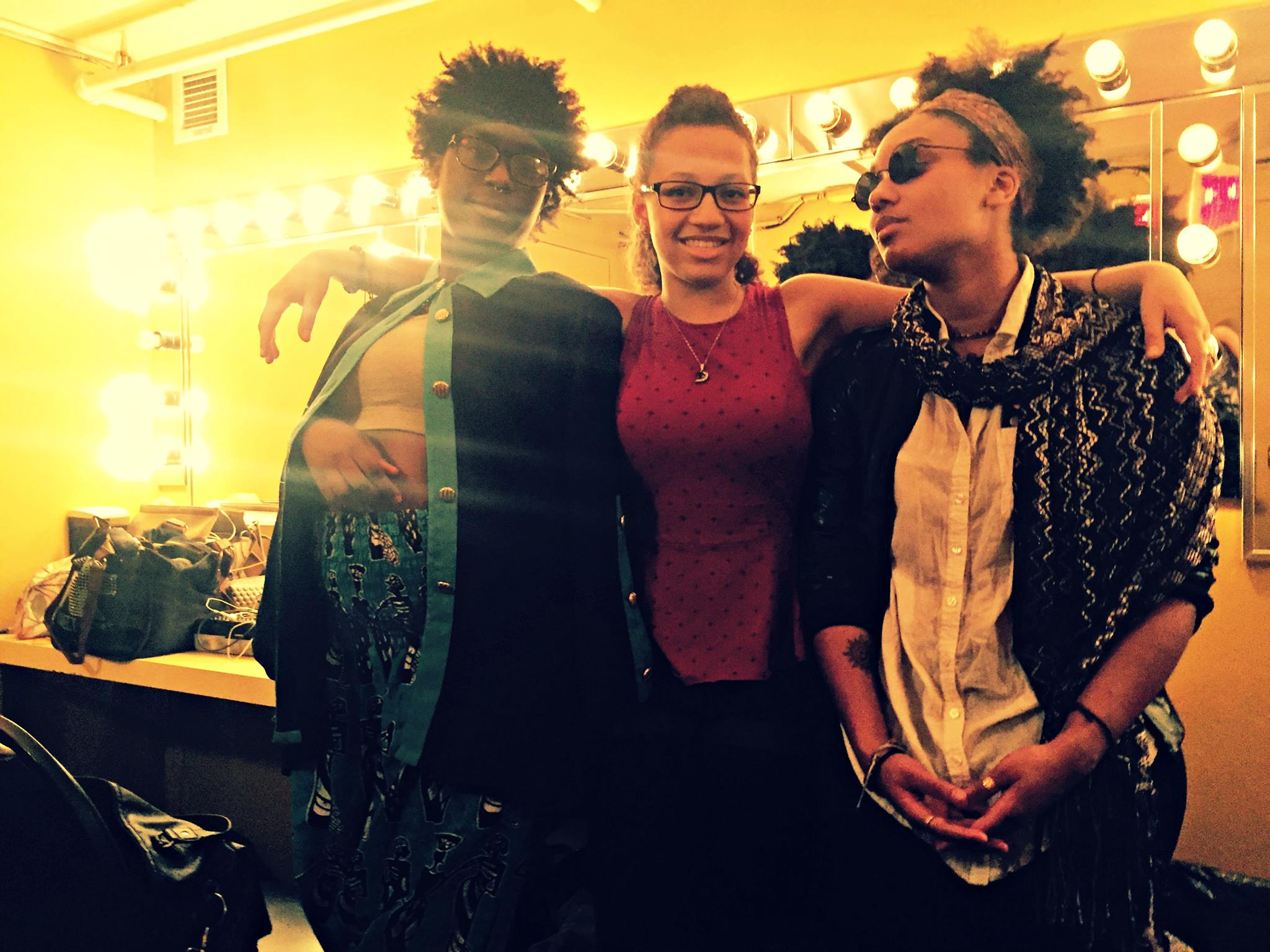 Strange Froots backstage at Club Soda for Talent Nation